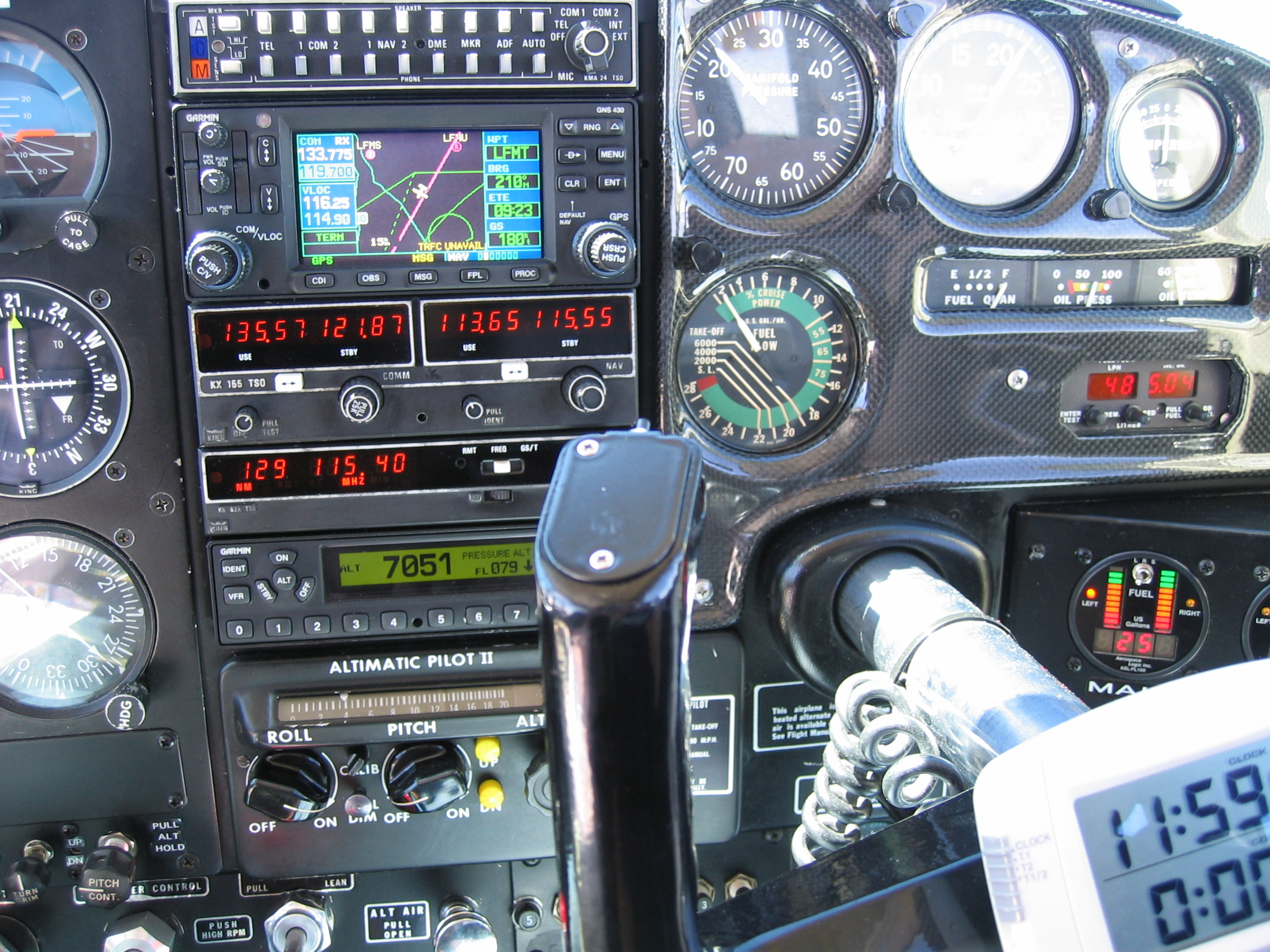 Piper PA-24 260B Comanche Instrumentation et performances